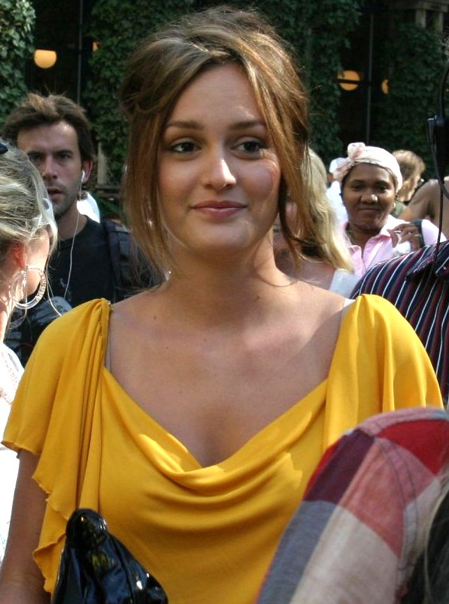 Leighton Meester at the Bryant Park September 2008 for New York Fashion Week Spring/Summer 2009.